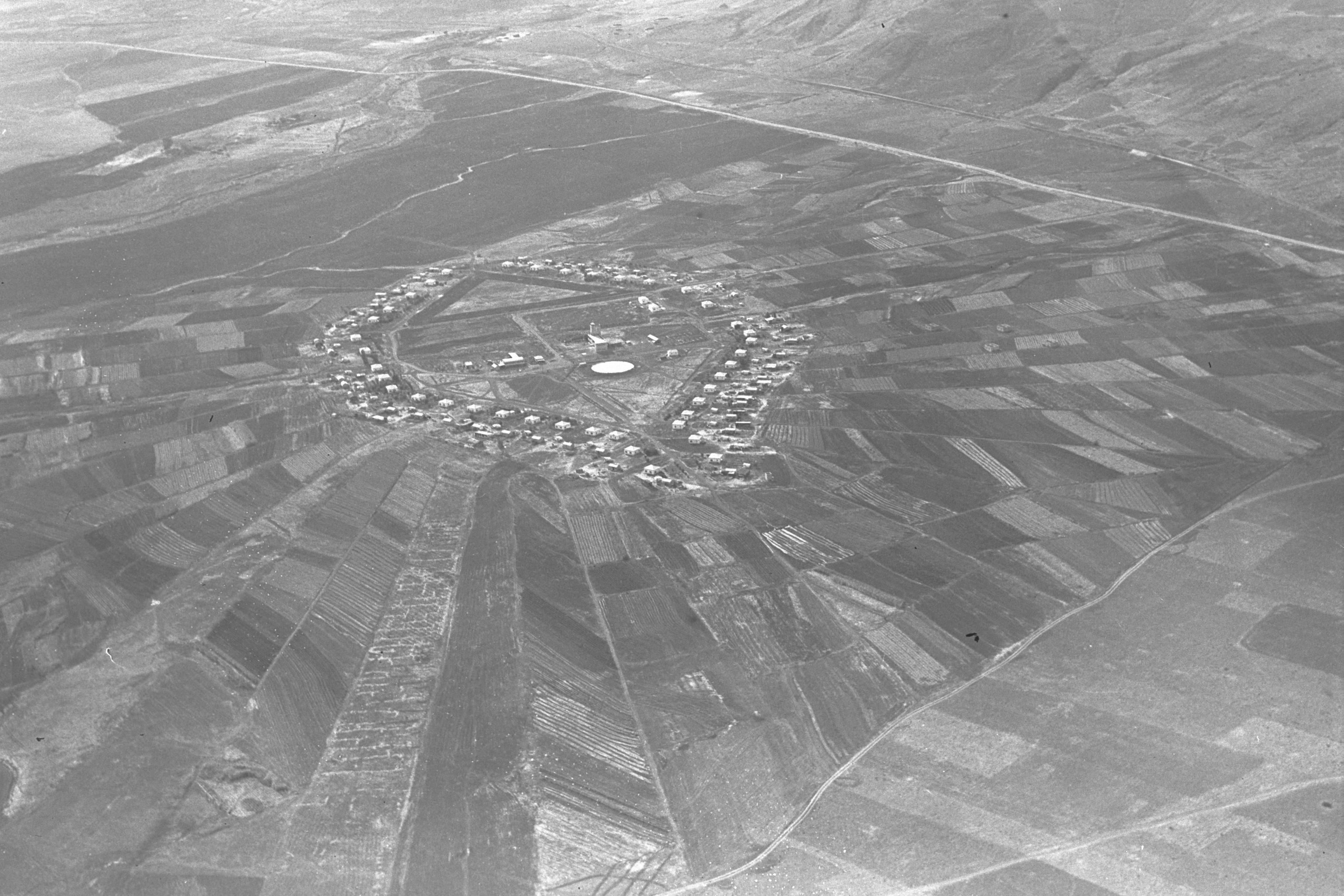 AERIAL VIEW OF MOSHAV BEIT YOSSEF. צילום אוויר של מושב בית יוסף בעמק בית שאן.